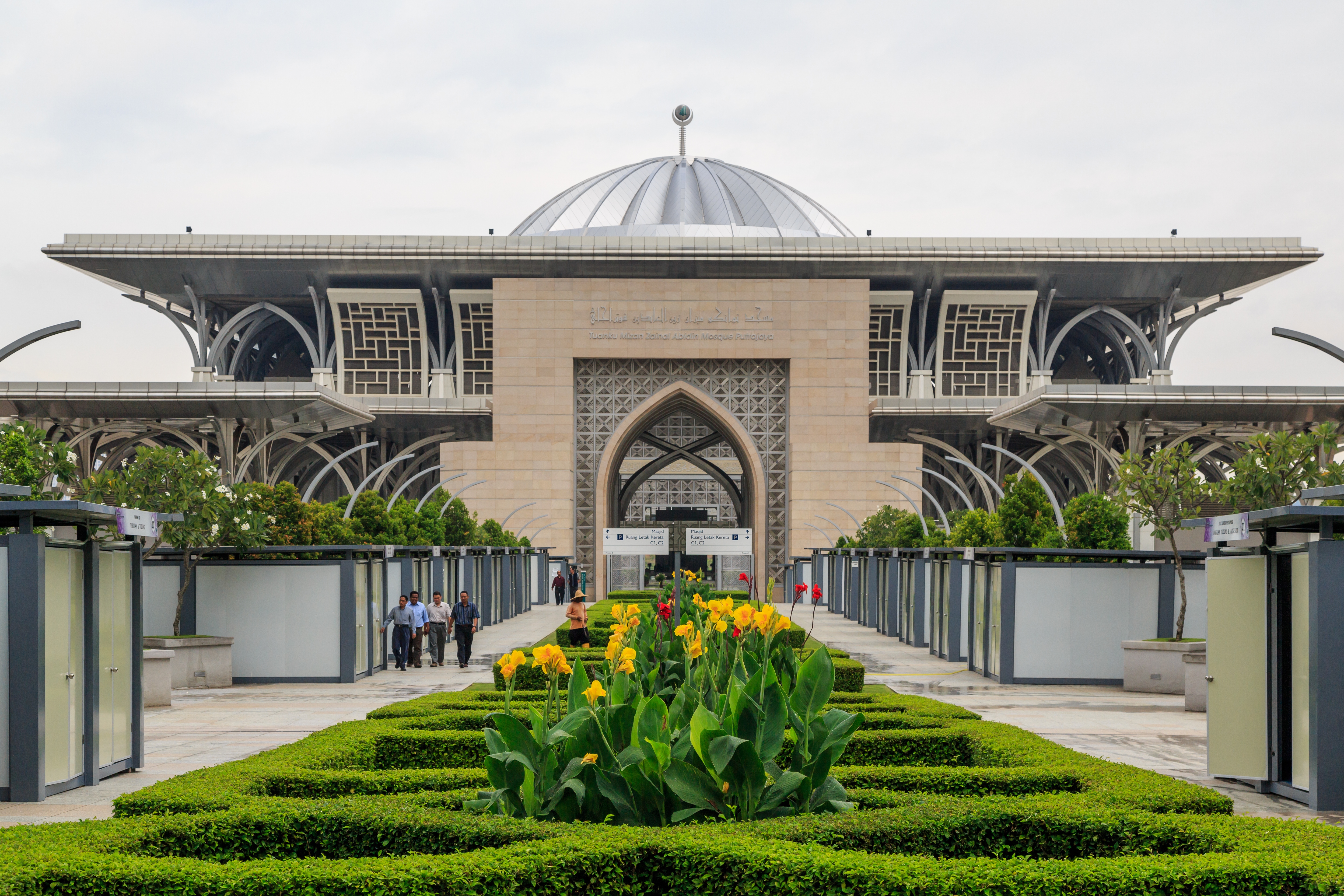 Putrajaya, Malaysia: Access way with greenery to the Tuanku Mizan Zainal Abidin Mosque